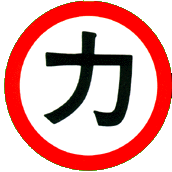 Japanese symbol Chikara.